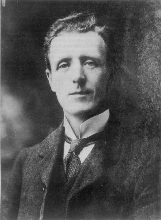 Alfred John West F.R.G.S. (1857-1937) Film pioneer in period 1897-1913